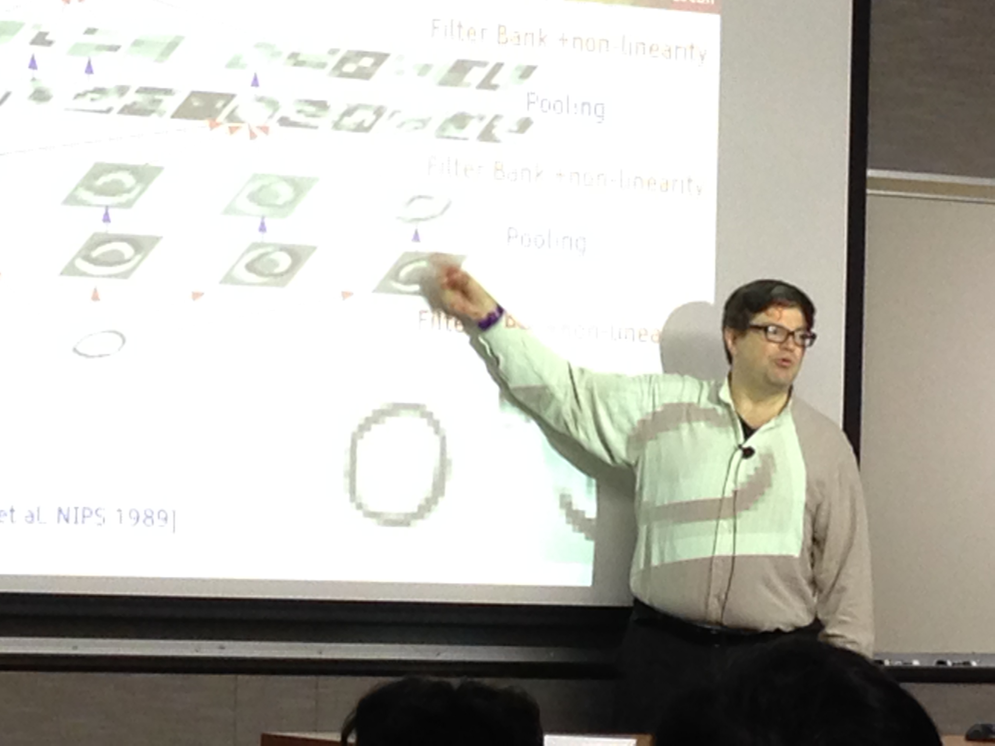 His talk "The Unreasonable Effectiveness of Deep Learning"